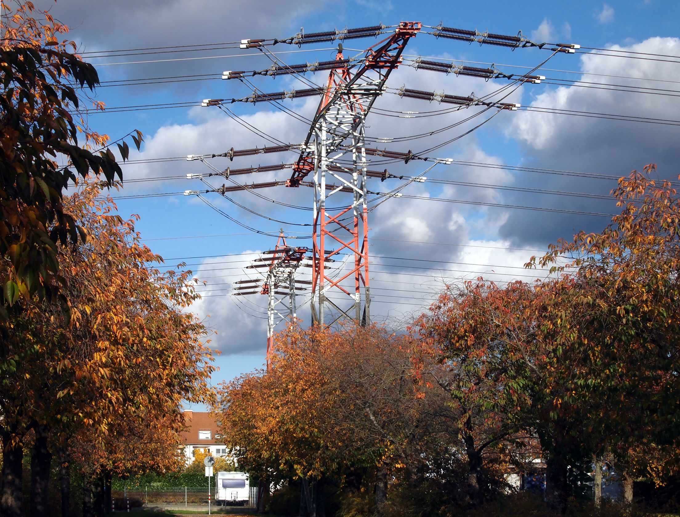 Low-profile powerline towers near an airfield in Karlsruhe, Germany